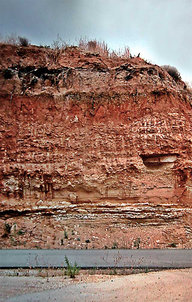 Archaeological site of «El Aculadero», in El Puerto de Santa María, province of Cádiz (Spain). Some scholars considers that is a pre-acheulean settlement (Pebble culture), dated before the Günz glaciation. This idea is questiones by other specialists.